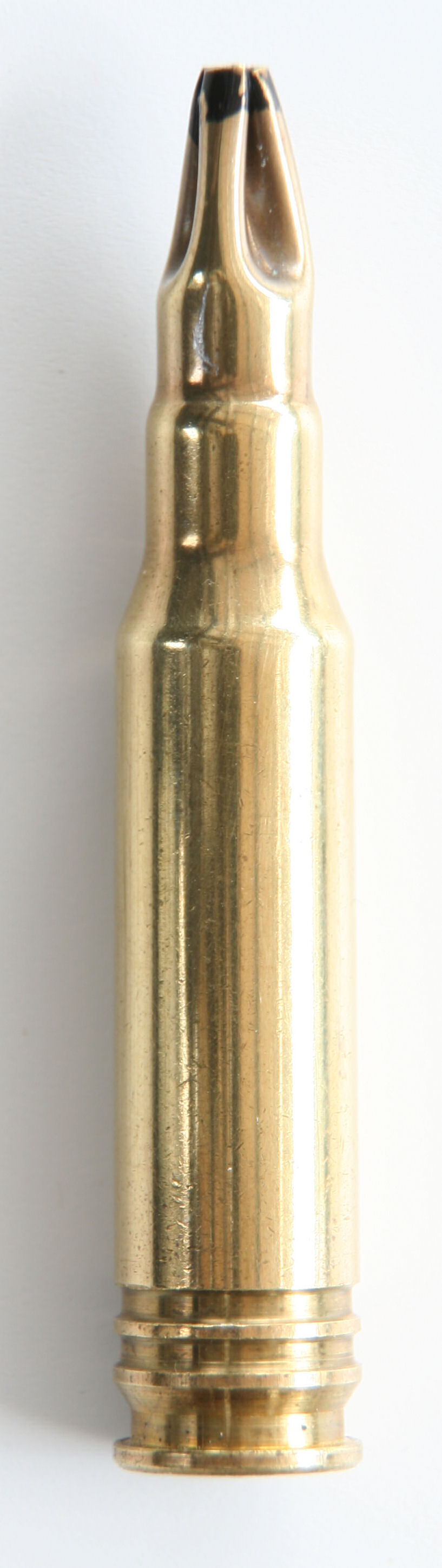 A blank in bore 7.62x51mm NATO